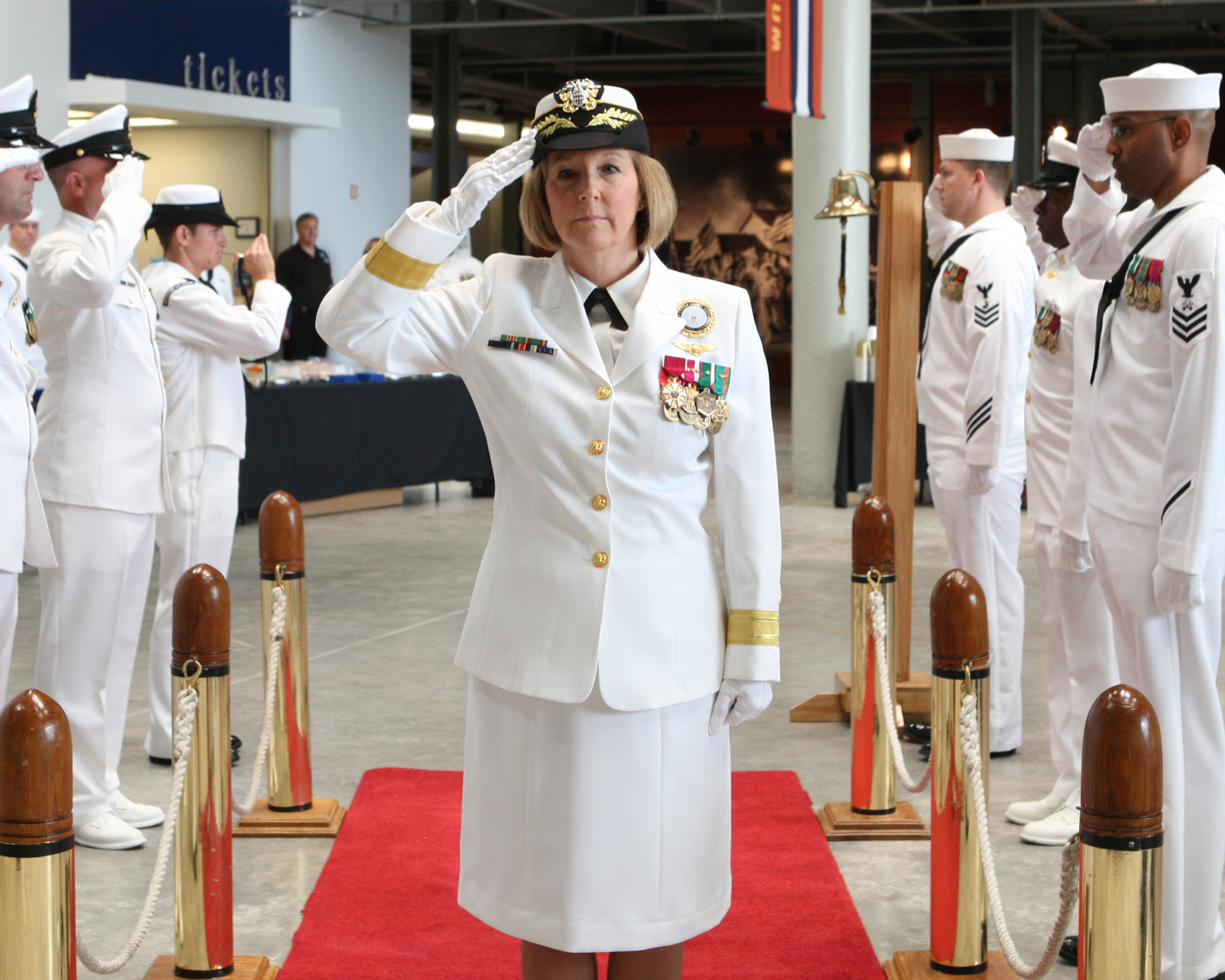 U. S. Navy Rear Adm. Robin R. Braun, Commander, Navy Recruiting Command, salutes the side boys, during the Navy Recruiting District New Orleans Change of Command ceremony held at the WWII Museum. The change of command ceremony is a time-honored tradition, symbolic of the passing of authority and responsibility to another officer.